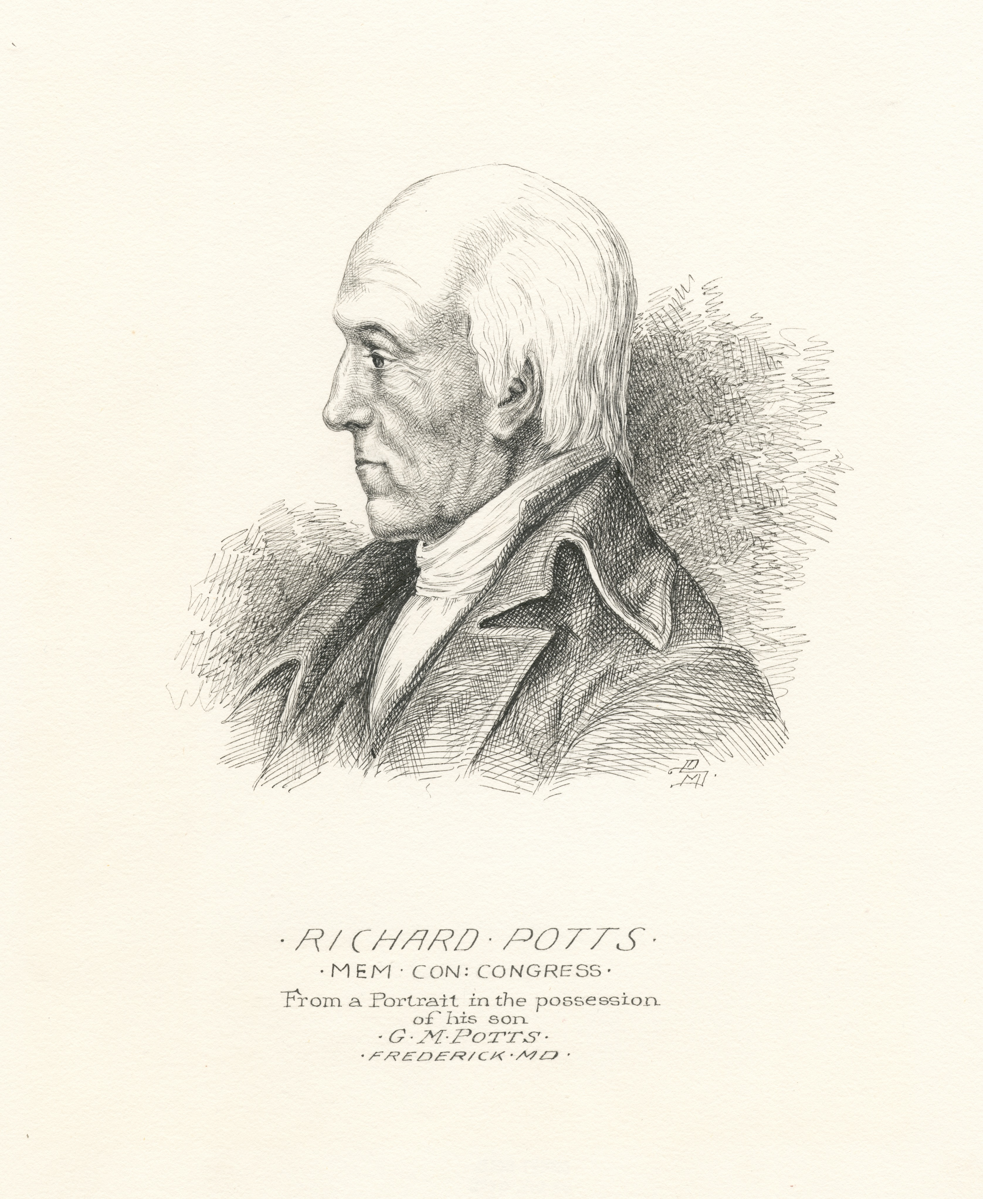 Printmakers include H.B. Hall, J.B. Longacre, Peter Maverick, Max Rosenthal. Draughtsman is David McNeely Stauffer. Title from Calendar of Emmet Collection. EM1032